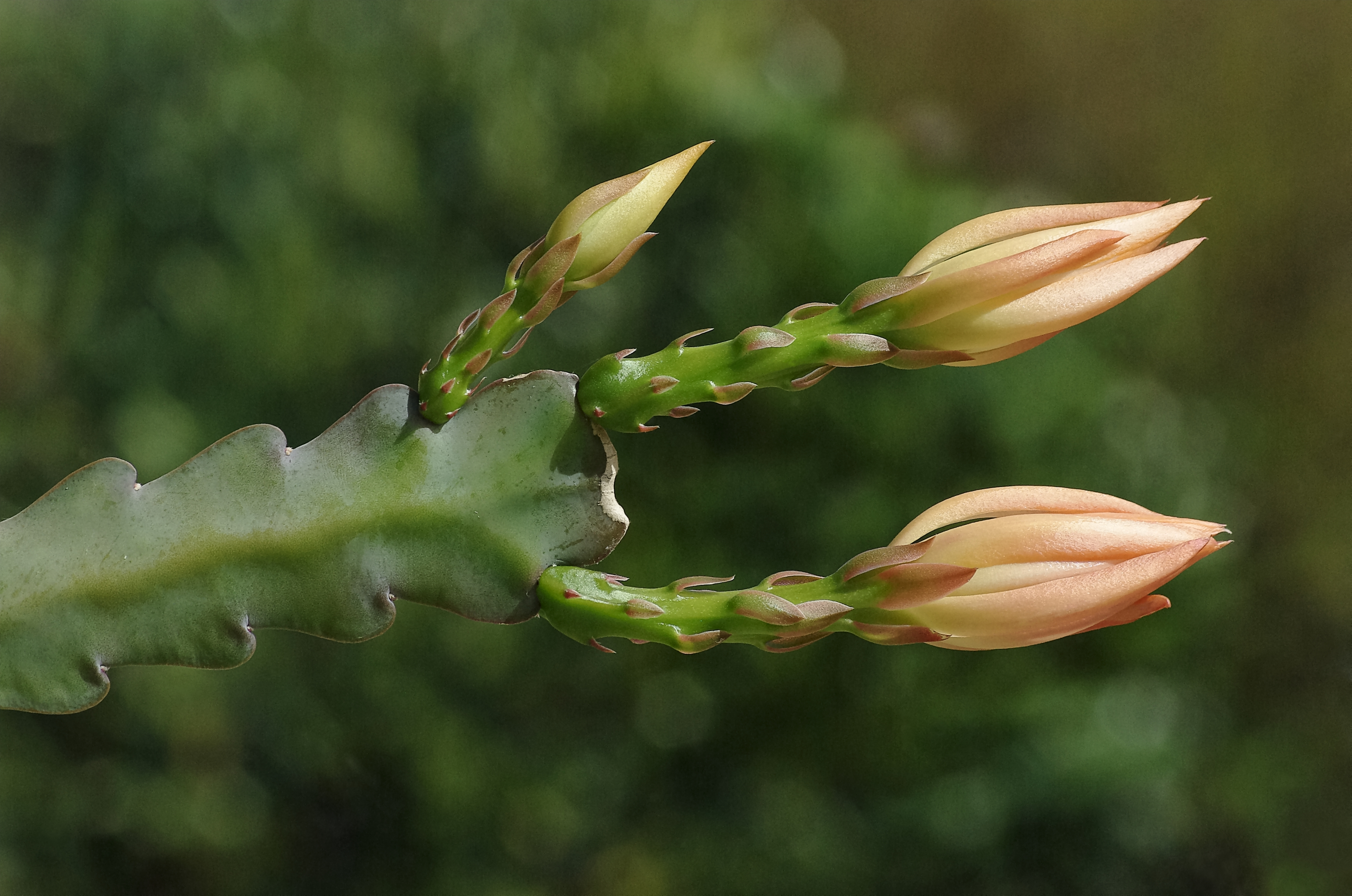 Epyphillum hybrid (Epyphillum x cultivar), opening buds. Veranda, France.